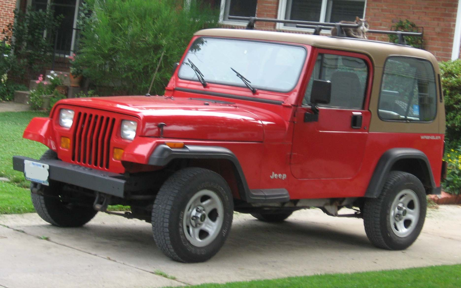 1987-1995 Jeep Wrangler photographed in USA.